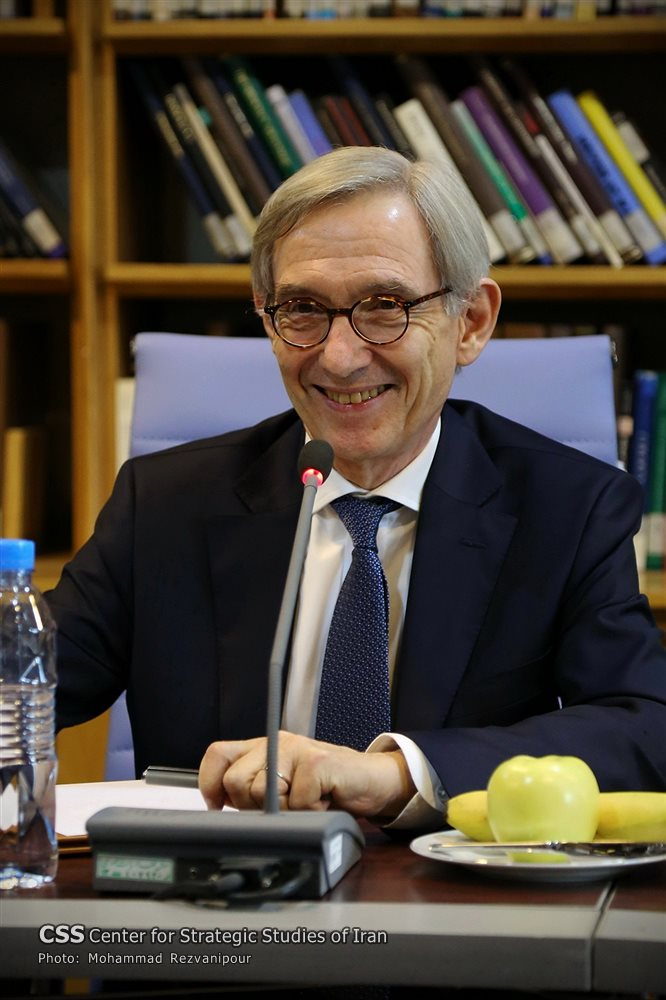 Michel Duclos, French diplomat